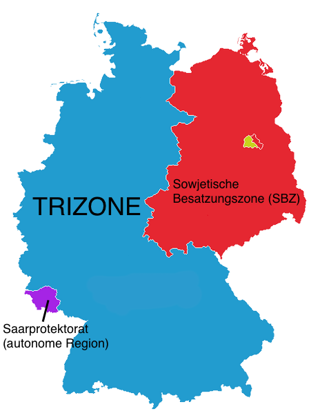 based on Trizonia.png by Mix321